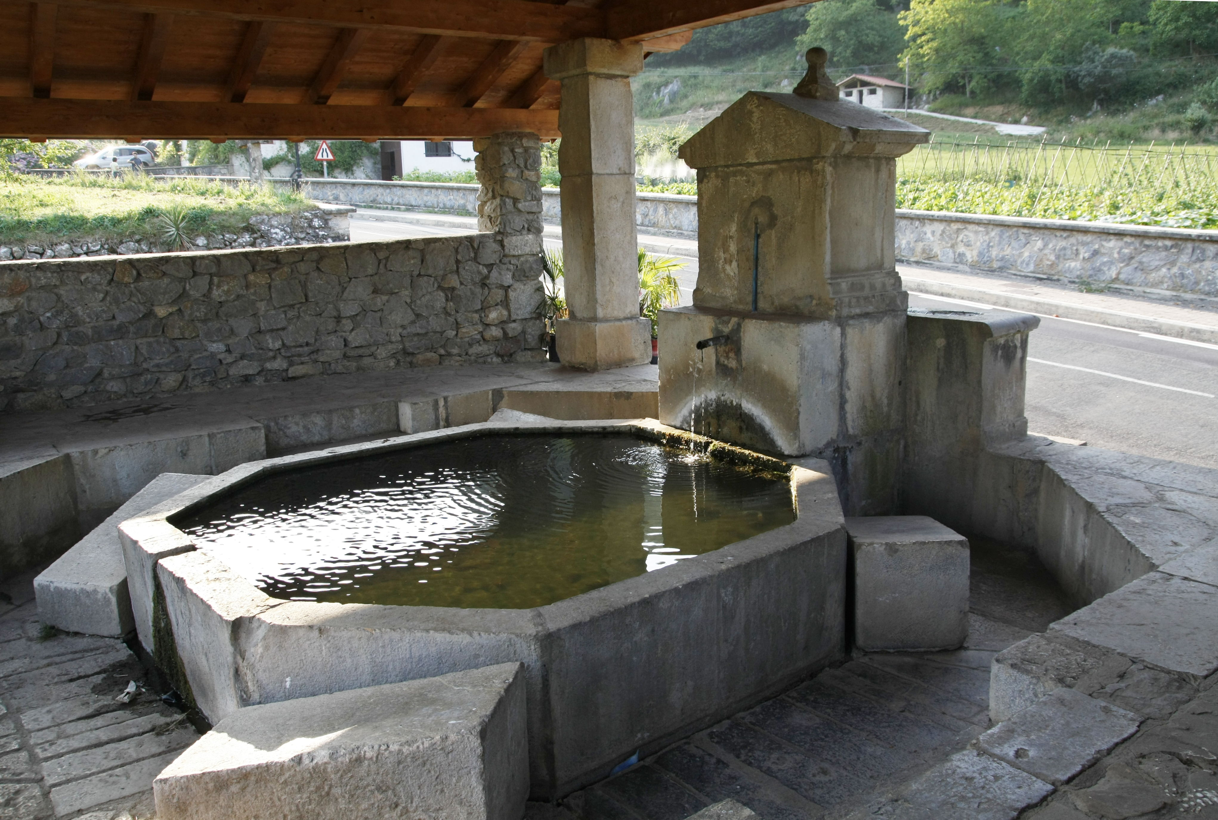 Washing place - Albiztur